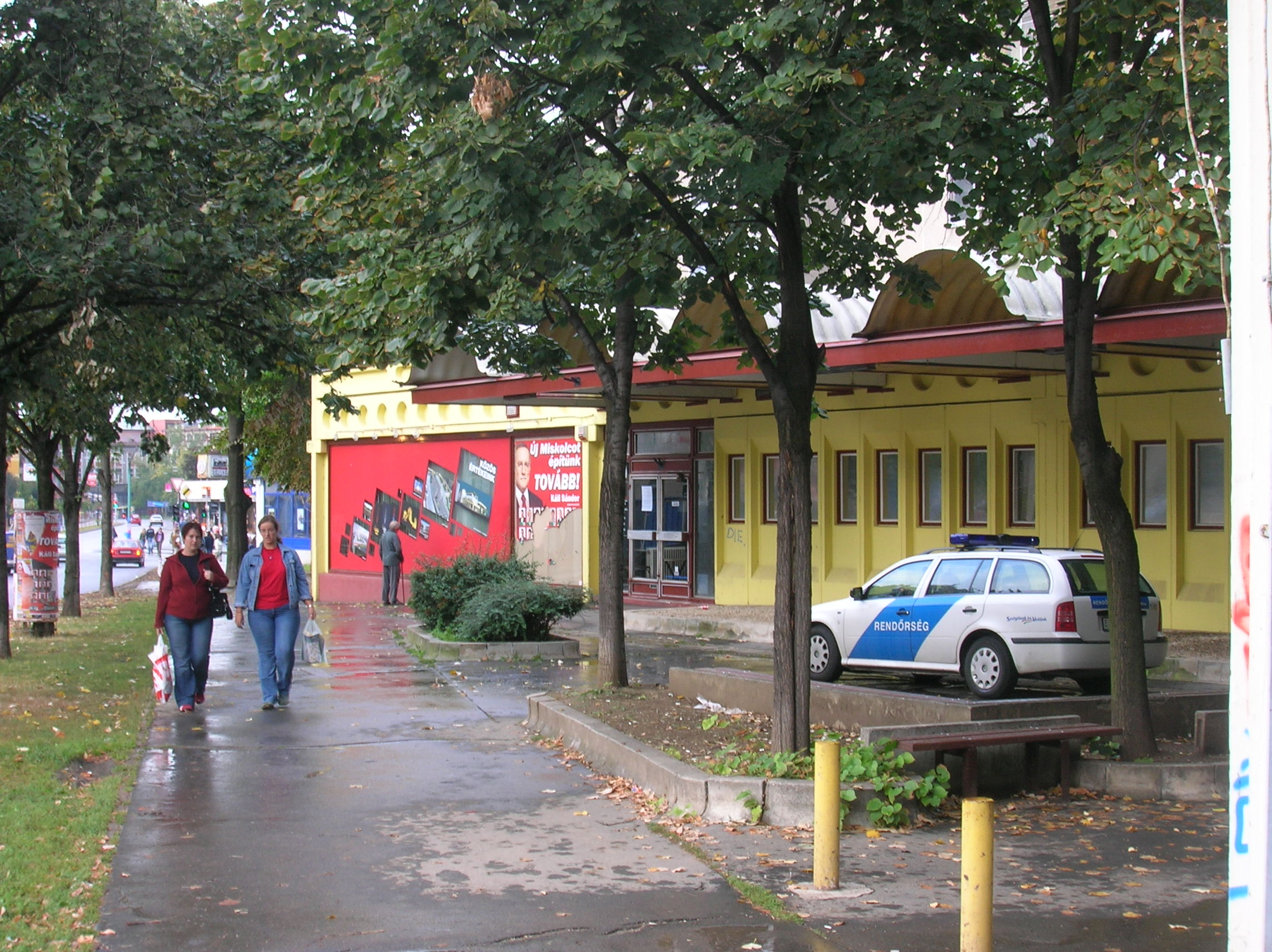 Broken window of the Socialist Party's office, 2006 anti-government protest, Miskolc, Hungary